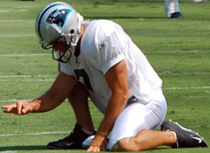 John Kasay practices field goals with holder/punter Jason Baker. Kasay is the lone remaining original Panther who has been with the team since the first season in 1995. Visit